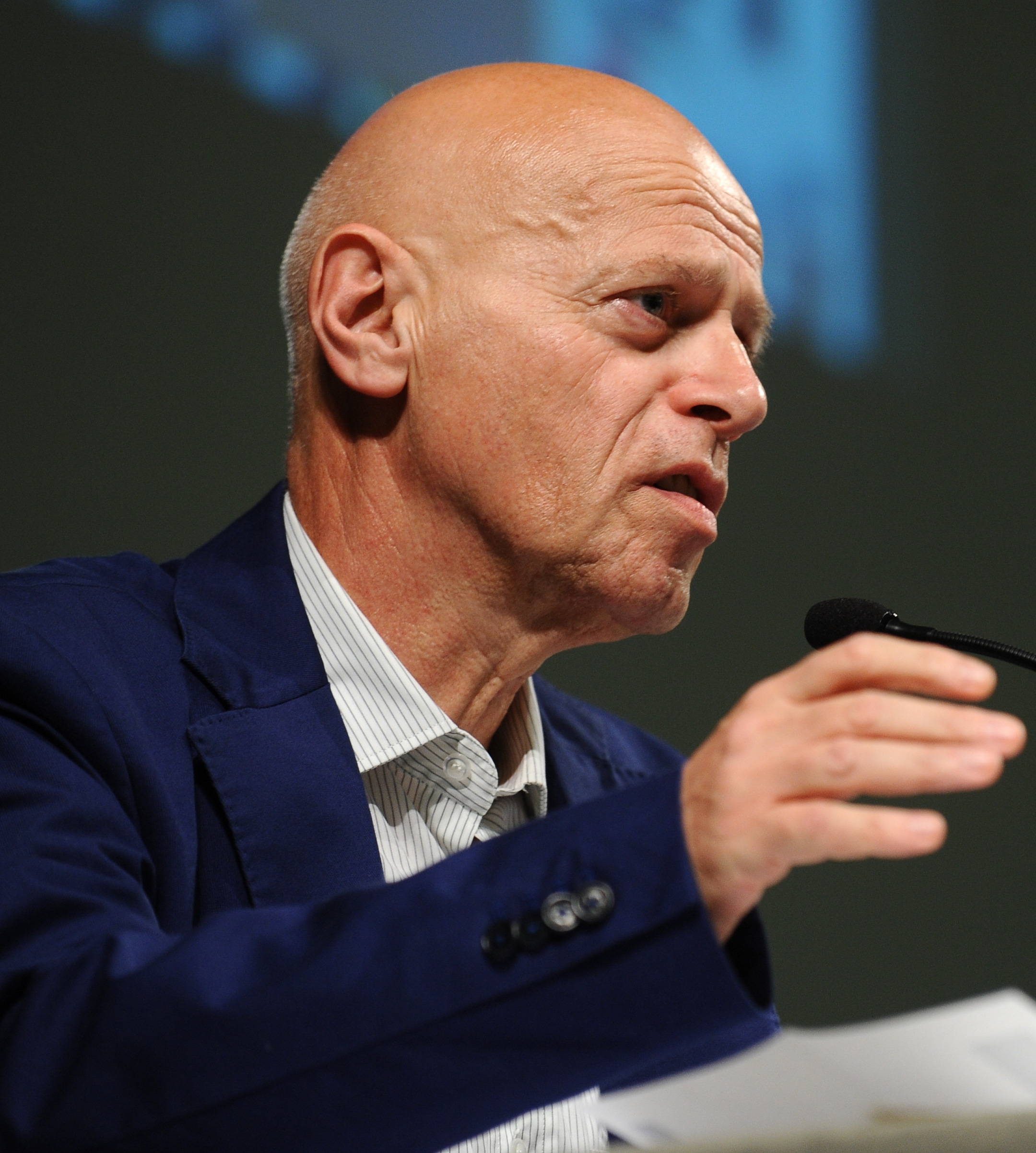 Ilvo Diamanti at the Festival of Economics 2012 in Trento.